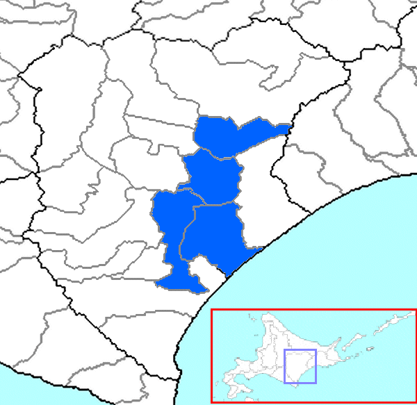 The location of Nakagawa District in Tokachi Subprefecture, Hokkaido Prefecture, Japan.